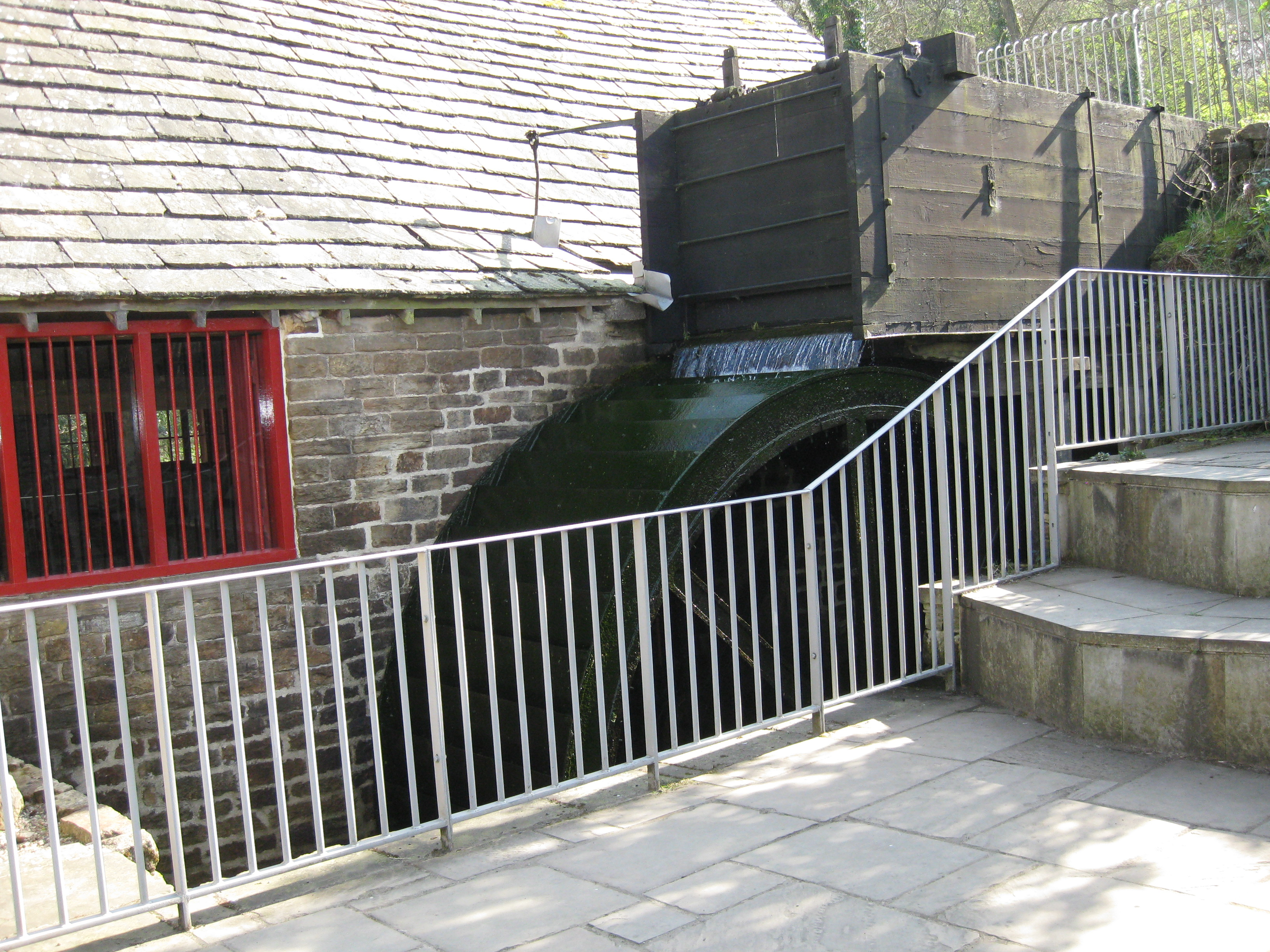 Water wheel at the Shepherd Wheel, Sheffield, beside the knife grinding workshop.